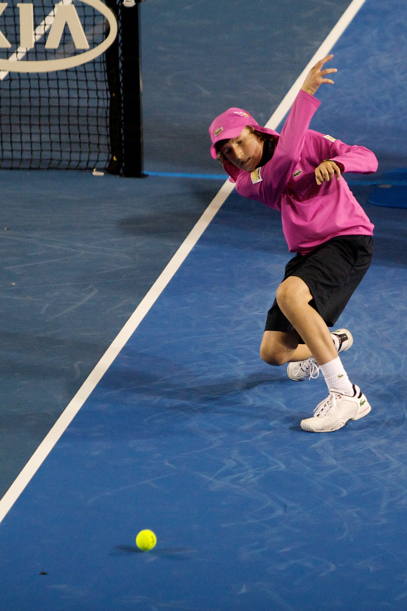 Ball kid - 2010 Australian Open.